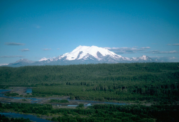 View of Mount Drum (12,010 ft/3661 m), Wrangell Mountains, Alaska, from the northwest